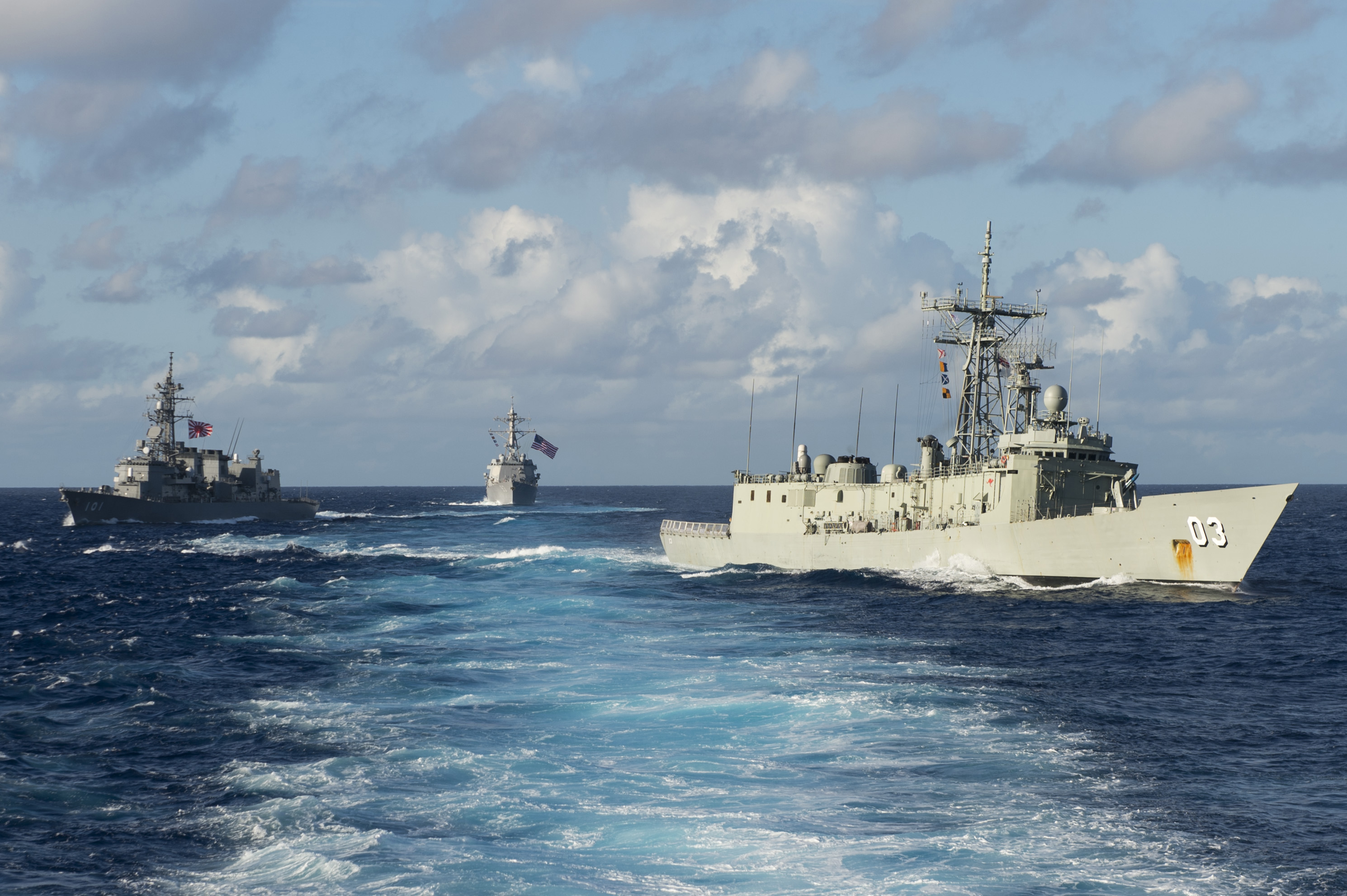 PACIFIC OCEAN (June 26, 2013) Royal Australian Navy frigate HMAS Sydney (FFG 03), right, Japan Maritime Self-Defense Force destroyer JS Murasame (DD 101), left, and the Arleigh Burke-class guided-missile destroyer USS Chung-Hoon (DDG 93) break formation behind the Arleigh Burke-class guided-missile destroyer USS Preble (DDG 88), not shown, during Pacific Bond 2013. Pacific Bond is a U.S. Navy, Royal Australian Navy, and Japan Maritime Self-Defense Force maritime exercise designed to improve interoperability and further relations between nations. (U.S. Navy photo by Mass Communication Specialist 3rd Class Paul Kelly/Released) 130626-N-TX154-064 Join the conversation navylive.dodlive.mil